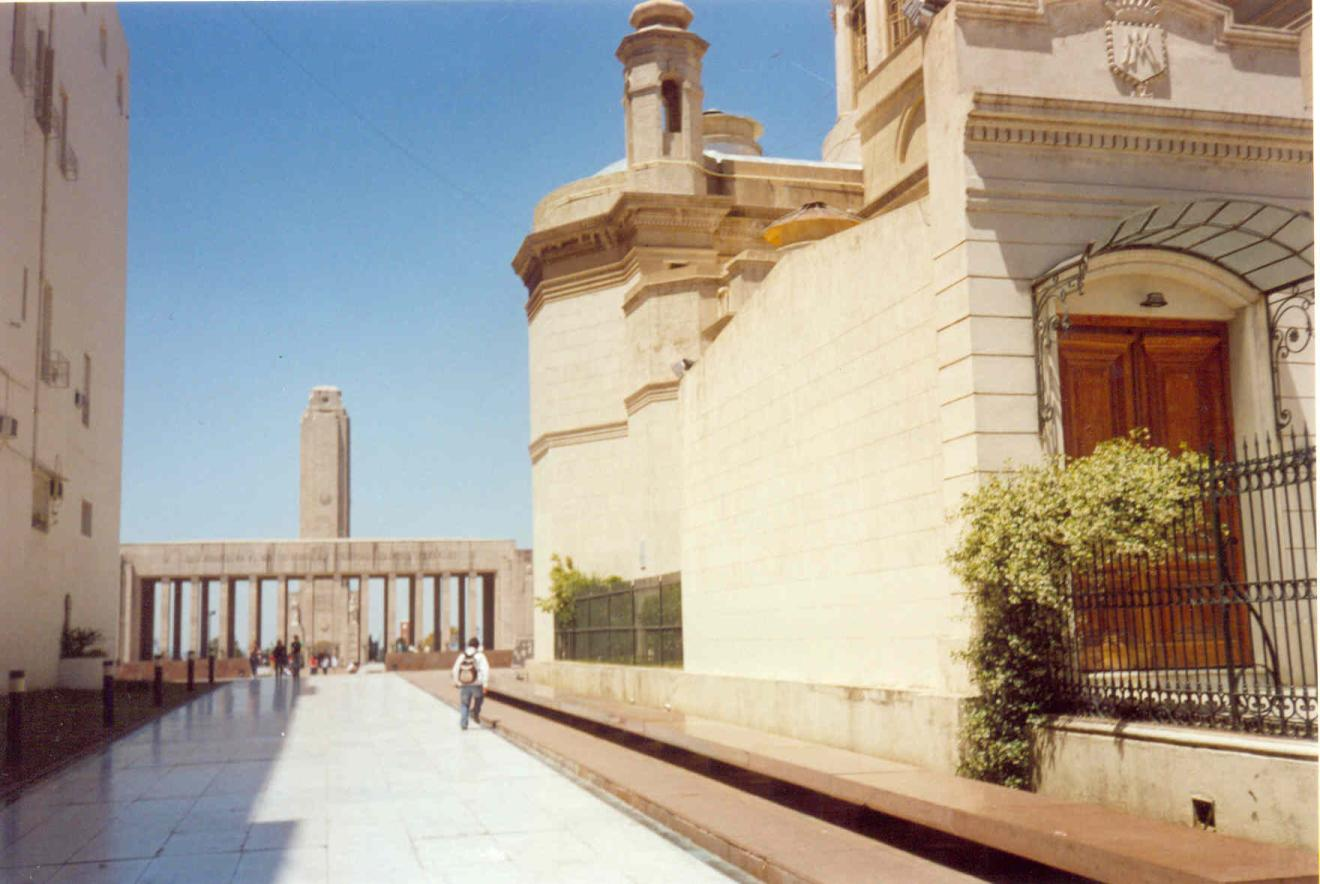 Pasaje Juramento (Oath Passage), leading to the National Flag Memorial in Rosario, Argentina. The building to the right is part of the Cathedral of Our Lady of the Rosary. I, Pablo D. Flores, took this picture in October 2005.